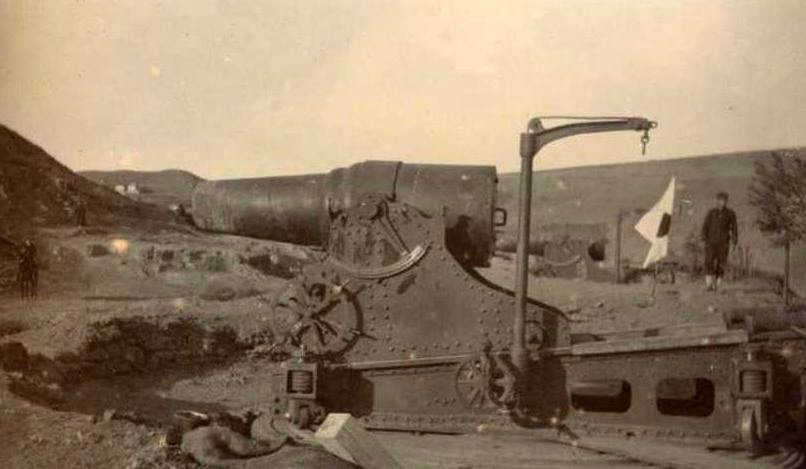 The Russo-Japanese front, photographed in his travel from from Dalny to Port Arthur (Russian Empire), on January 2 1905, by Admiral Ernesto Burzagli (1873-1944), Italian naval attaché in Tokio, who sailed from Yokohama (Japan) on a diplomatic mission to Port Arthur, during the Russo-Japanese War. The original picture, scanned by Emiliano Burzagli, belongs to the Private archive of Burzaghi family, Italy.